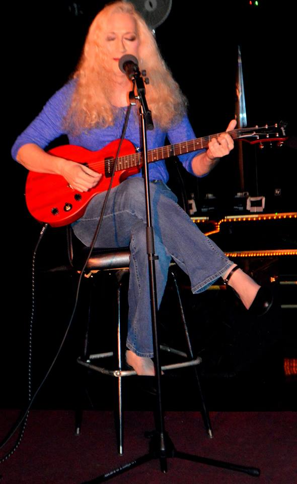 December 17,2017 - Krissy Ramsey performing at Images Night Club in Chattanooga, Tennessee (Photo by Wendy Pursley Tippens)